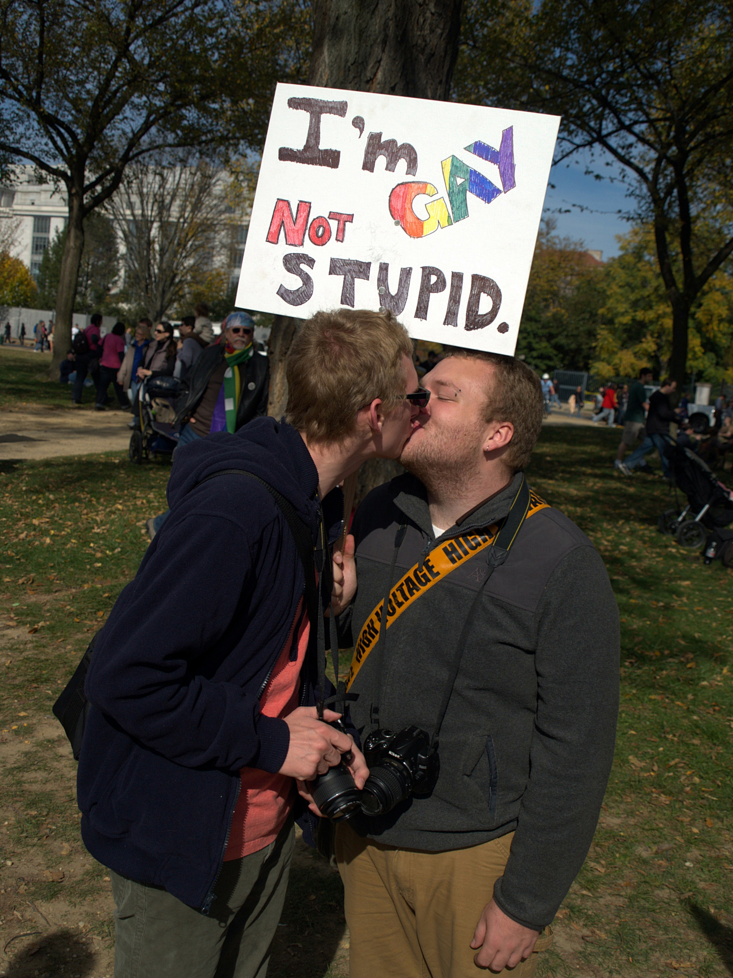 Photographs of the Rally to Restore Sanity and/or Fear.